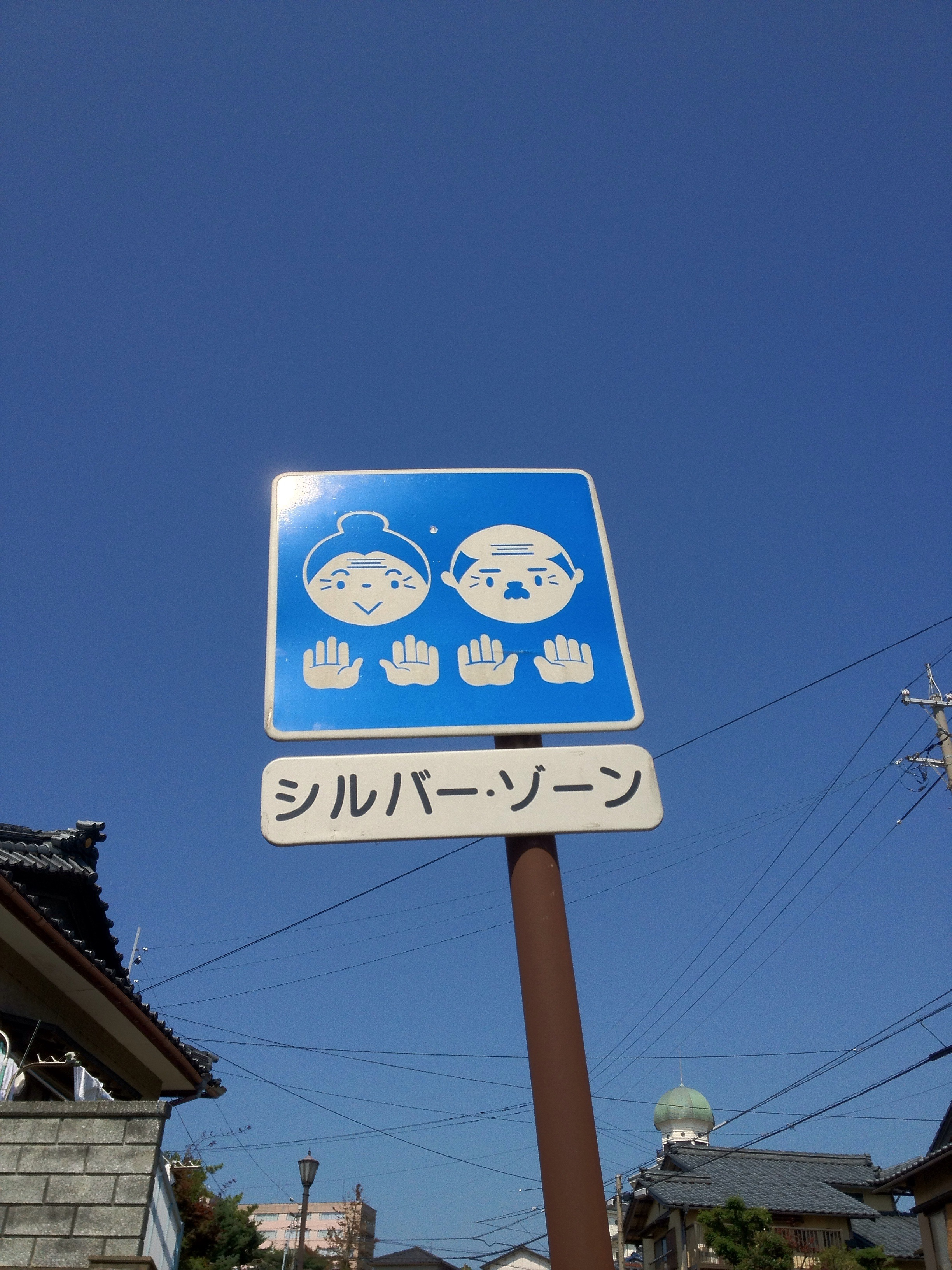 Road sign indicating the silver zone in Tahara-cho, Tahara City, Aichi Prefecture